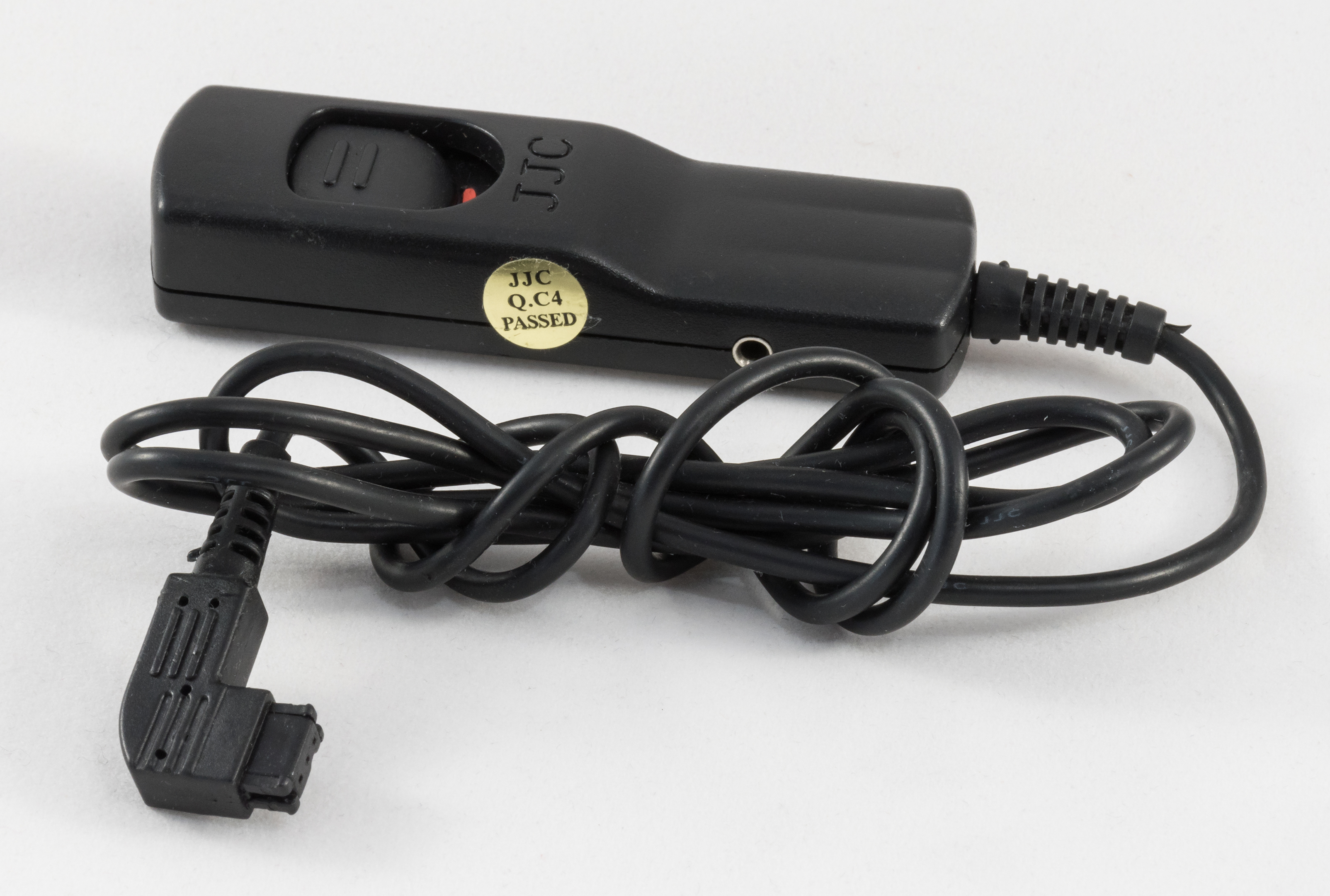 Sony cable release